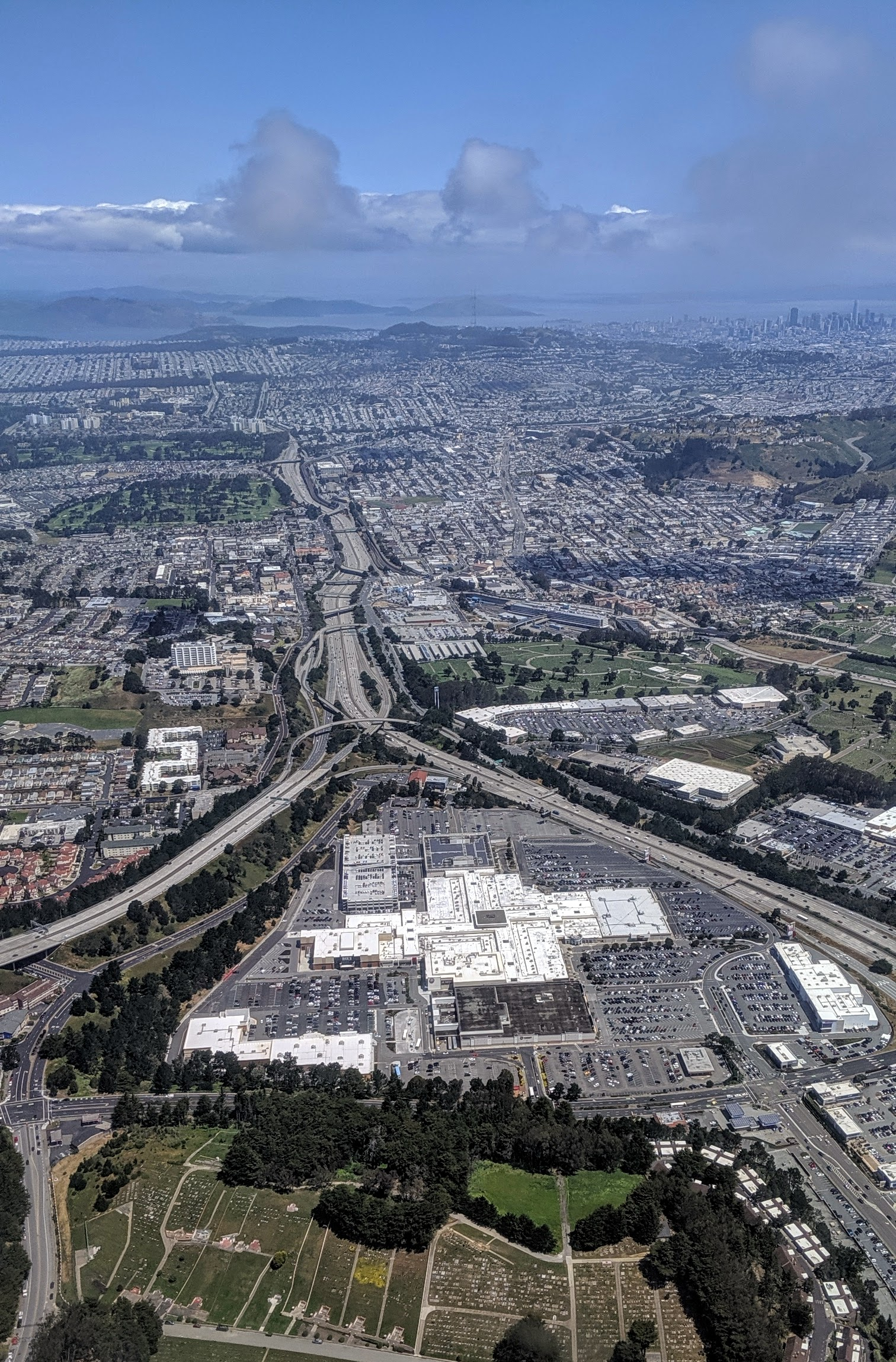 Aerial view from the south of Serramonte Center, Daly City, California, between California 1 and I-280, with San Francisco in the background